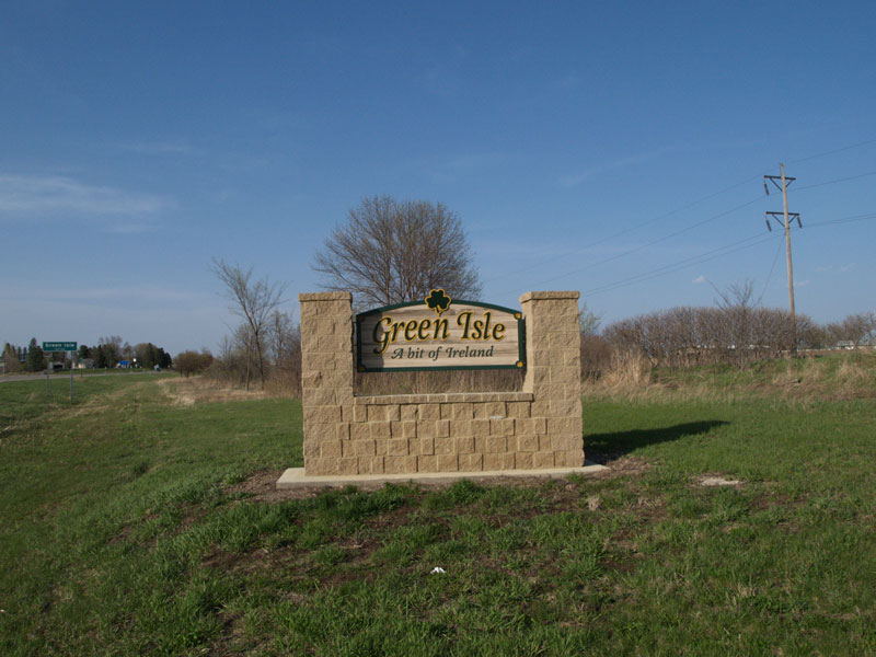 Green Isle, Minnesota. From .